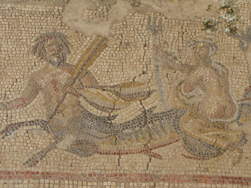 Archeological sites of Israel